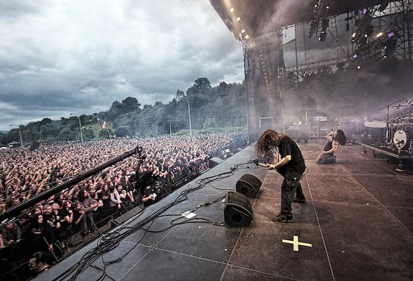 Performing live with Kataklysm at the Masters of Rock festival in Czech Republic 2009